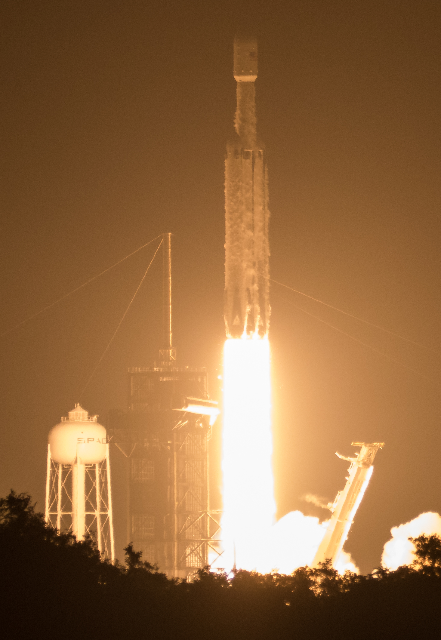 A SpaceX Falcon Heavy rocket carrying 24 satellites as part of the Department of Defense's Space Test Program-2 (STP-2) mission launches from Launch Complex 39A, Tuesday, June 25, 2019 at NASA's Kennedy Space Center in Florida. Four NASA technology and science payloads which will study non-toxic spacecraft fuel, deep space navigation, "bubbles" in the electrically-charged layers of Earth's upper atmosphere, and radiation protection for satellites are among the two dozen satellites that will be put into orbit. Photo Credit: (NASA/Joel Kowsky)